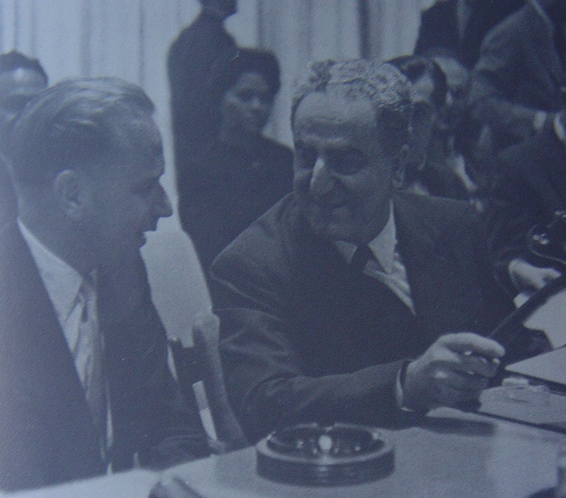 Charles Malik & Dag Hammarskjöld in September 16, 1958